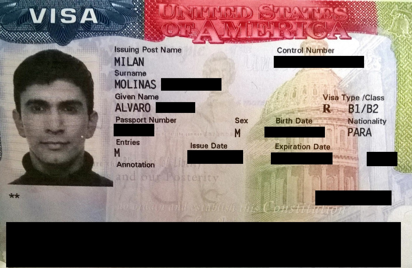 A United States visa. Issued by the Consulate General of the United States, Milan, Italy. (2014)